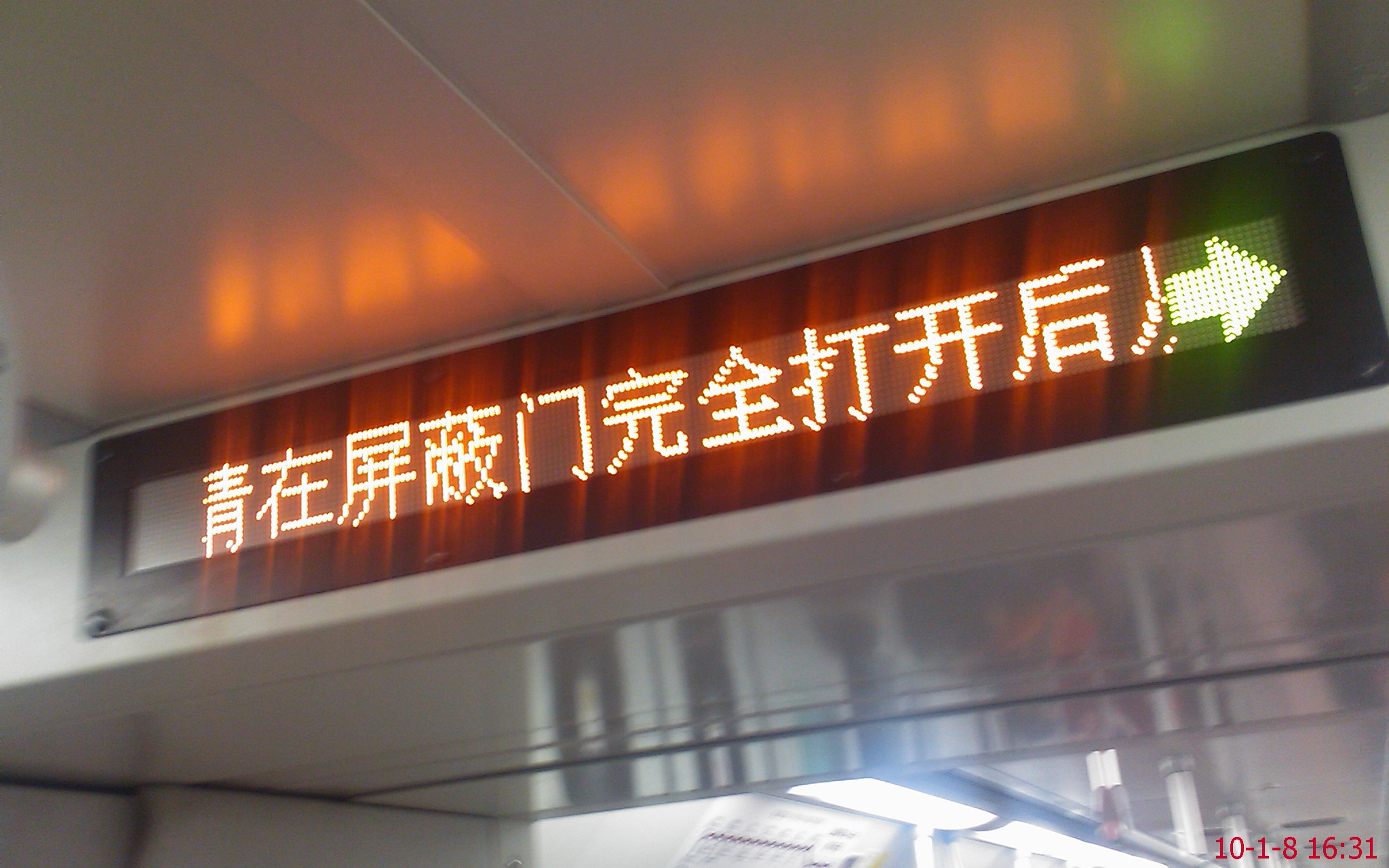 LED Screen in the the cabin of Shanghai Metro Line 11